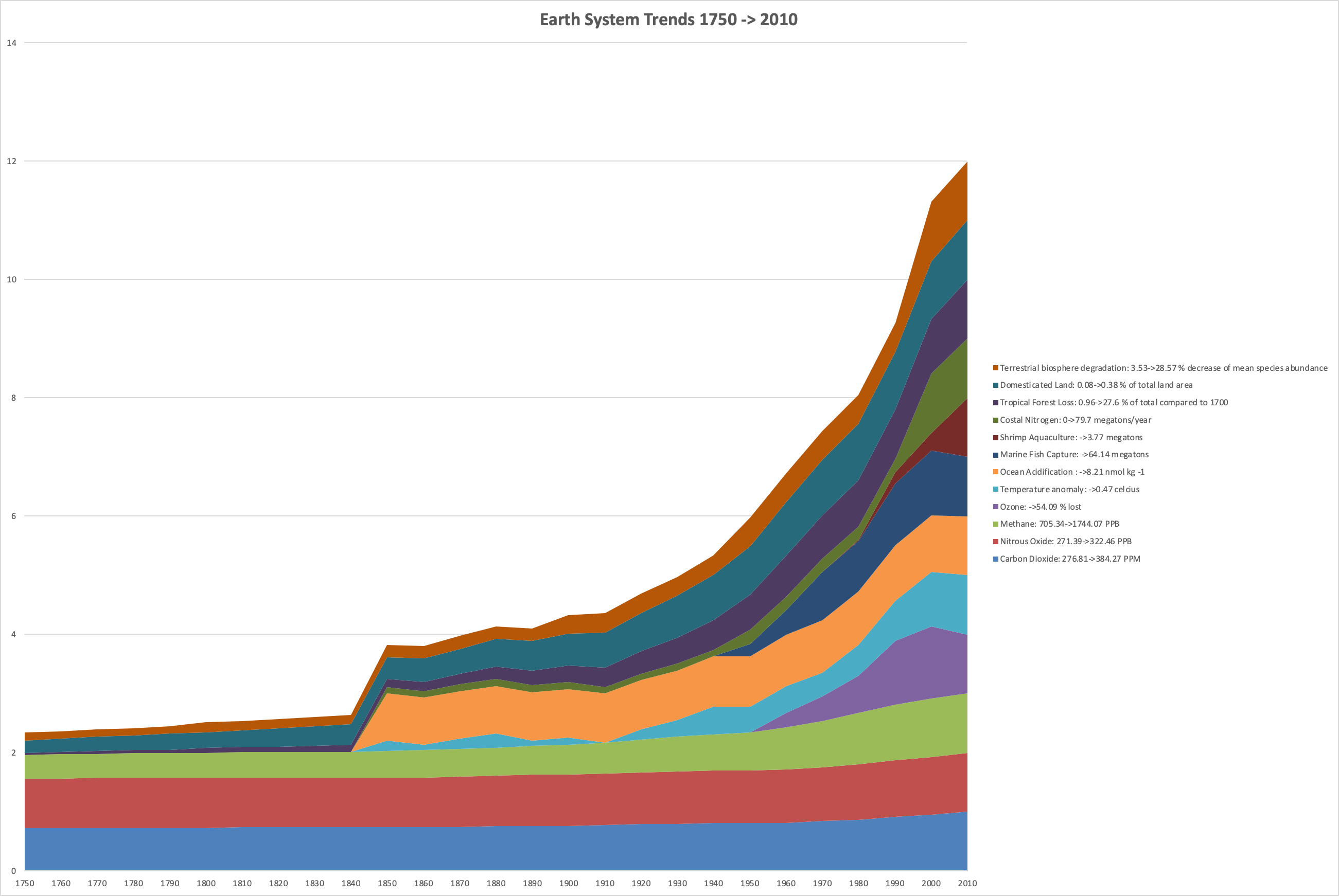 Earth System Trends of the Great Acceleration of the Anthropocene from 1750 to 2010. The data graphically displayed is scaled for each datum's 2010 value. Source data is from the International Geosphere-Biosphere Programme